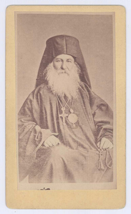 Hilarion of Makariopolis by Toma Hitrov